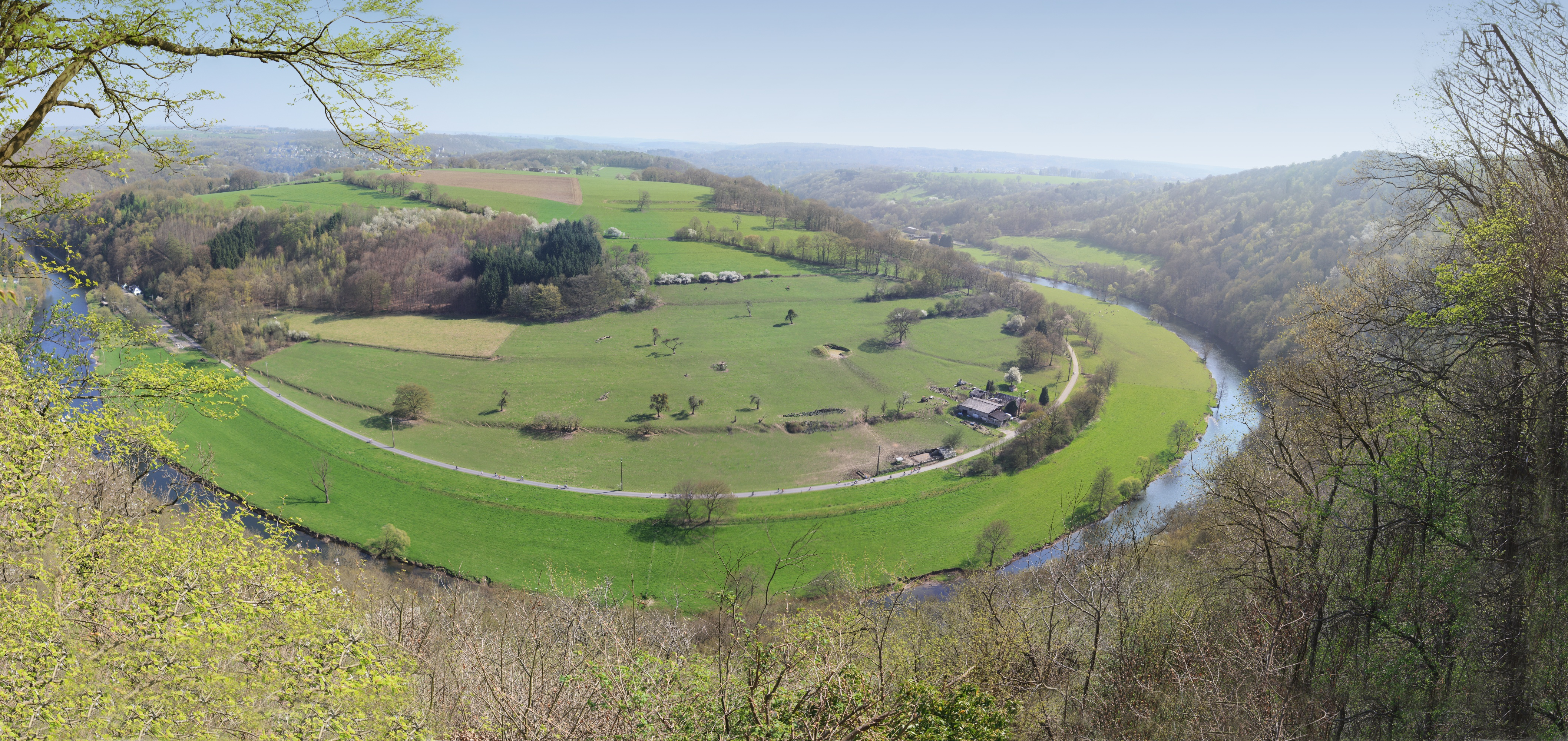 Panoramic view of the Ourthe and Esneux, from the Roche-aux-Faucons, Neupré, Belgium.